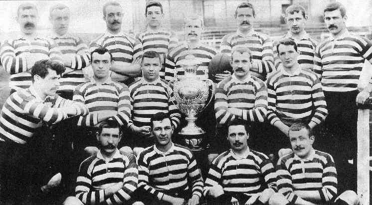 Oldham RLFC posing with the cup won.